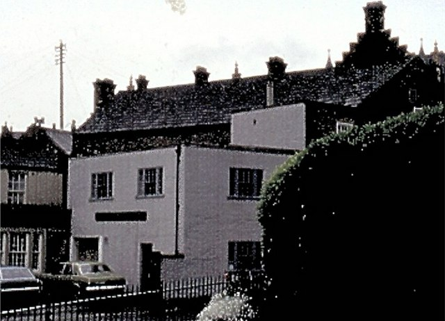 Georgian Theatre, Richmond